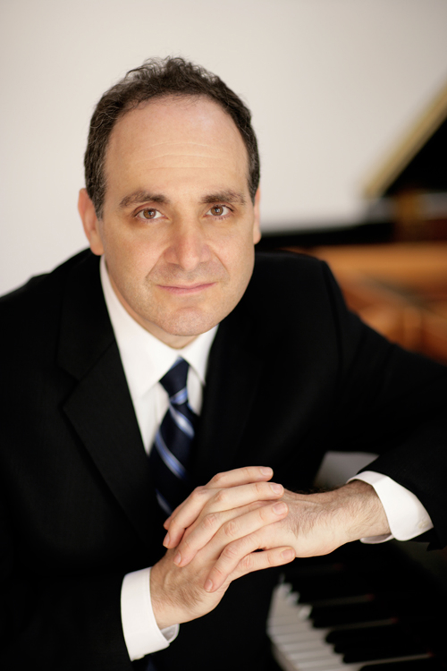 Richard Kogan, American psychiatrist and concert pianist